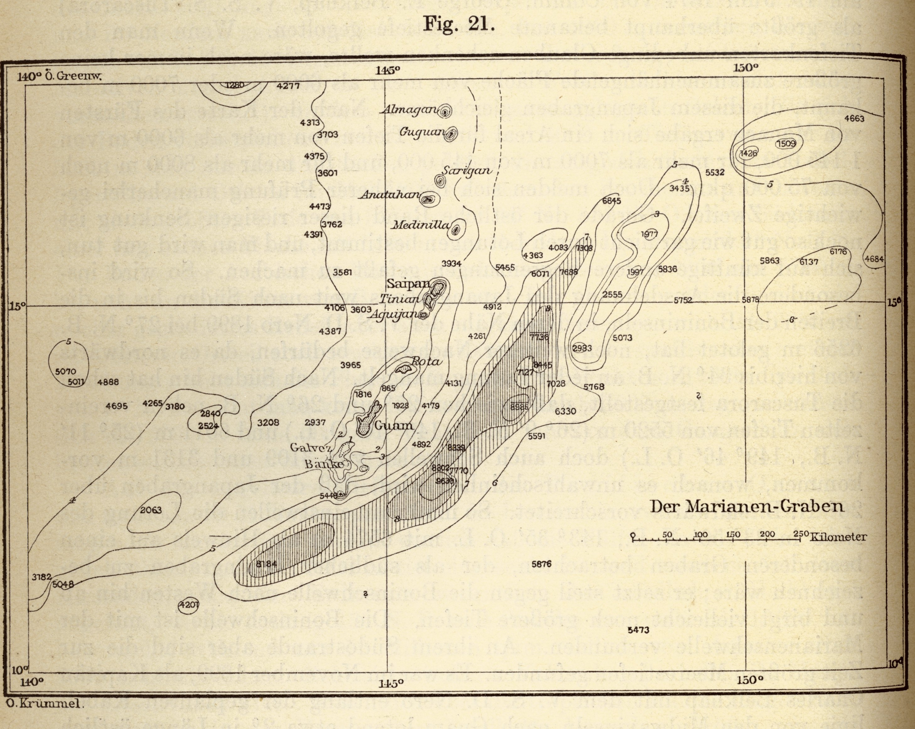 Otto Krummel's map of the Mariana Trench. In: "Handbuch der Ozeanographie", 1907.